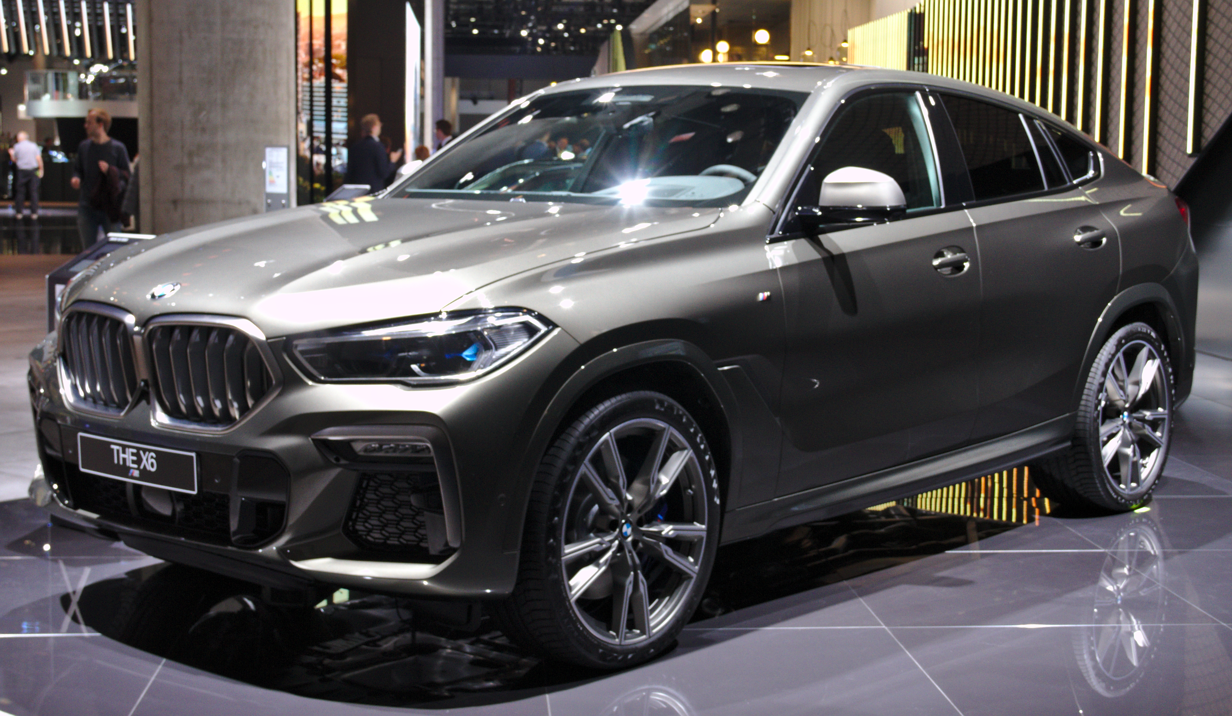 BMW_G06 at IAA 2019